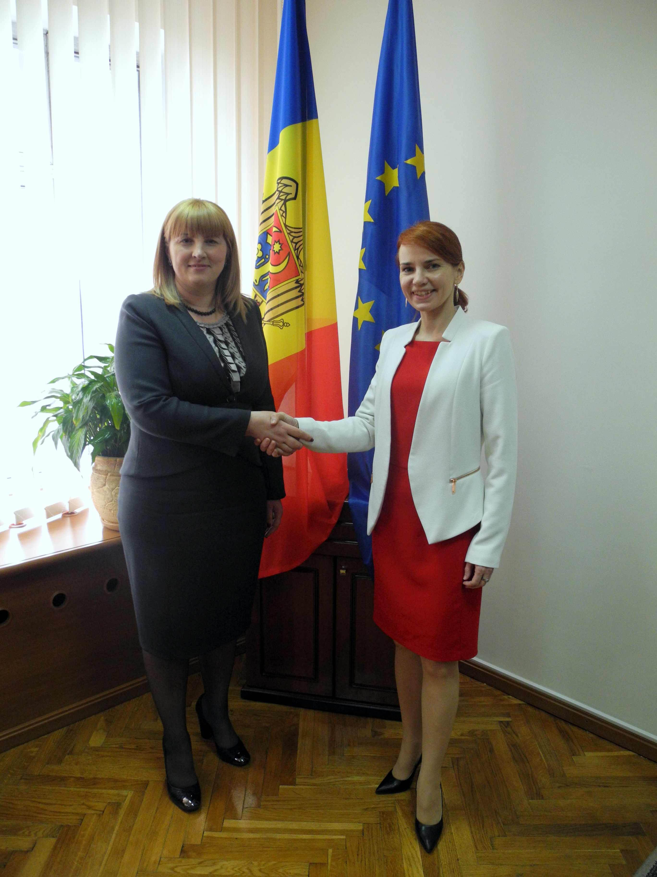 Liliana Palihovici (left)